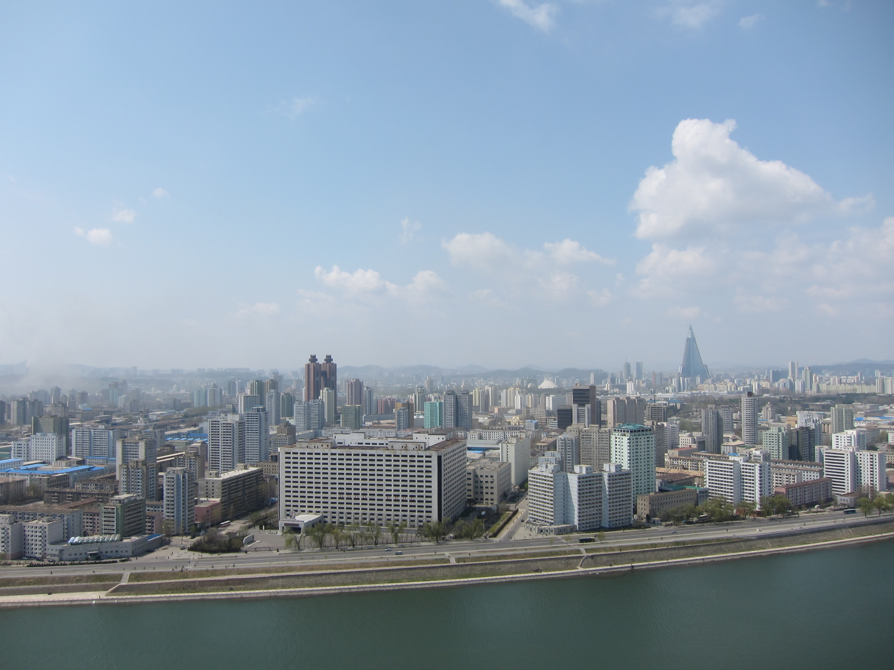 View of Pyongyang facing west from the Yanggakdo Hotel towards the Ryugyong Hotel (at right in the distance).